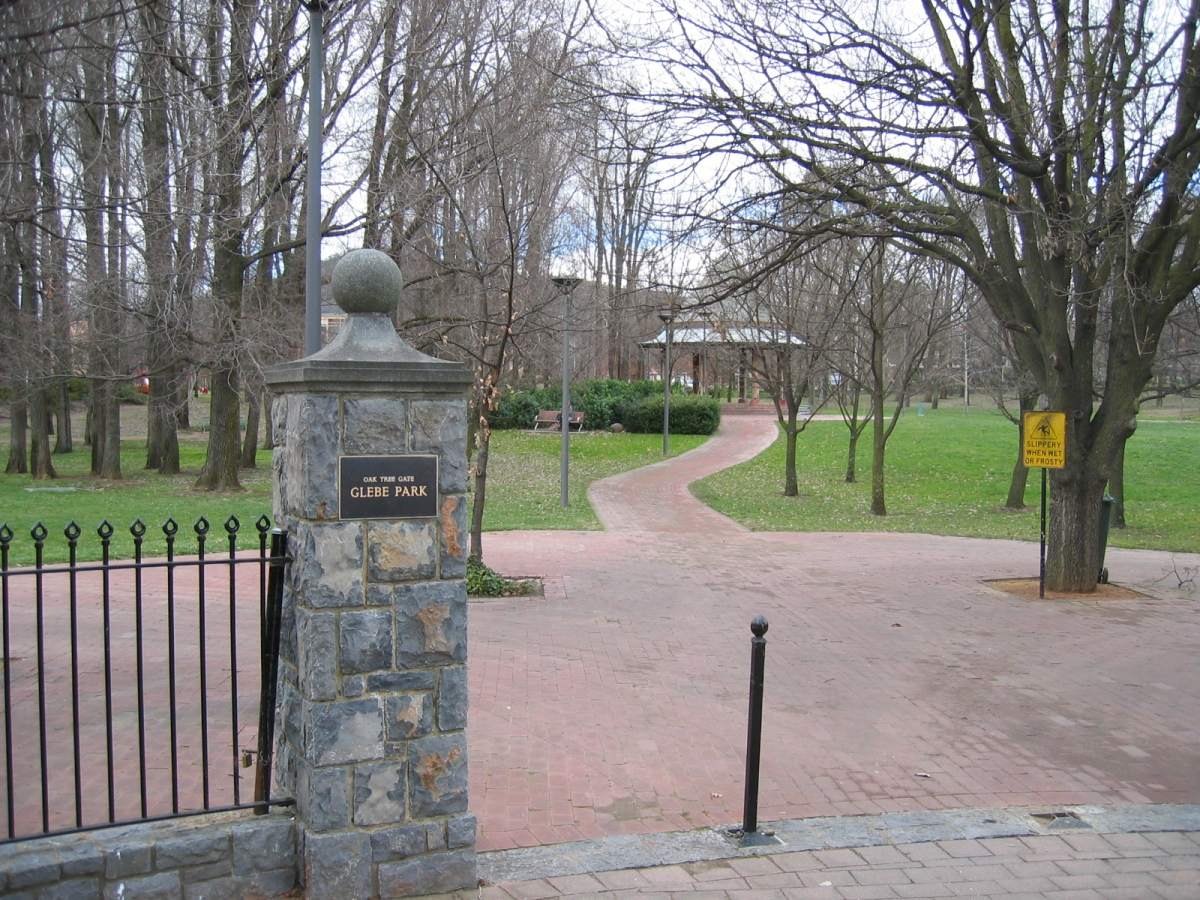 Glebe Park from Oak Tree Gate entrance. Gazebo visible in background.